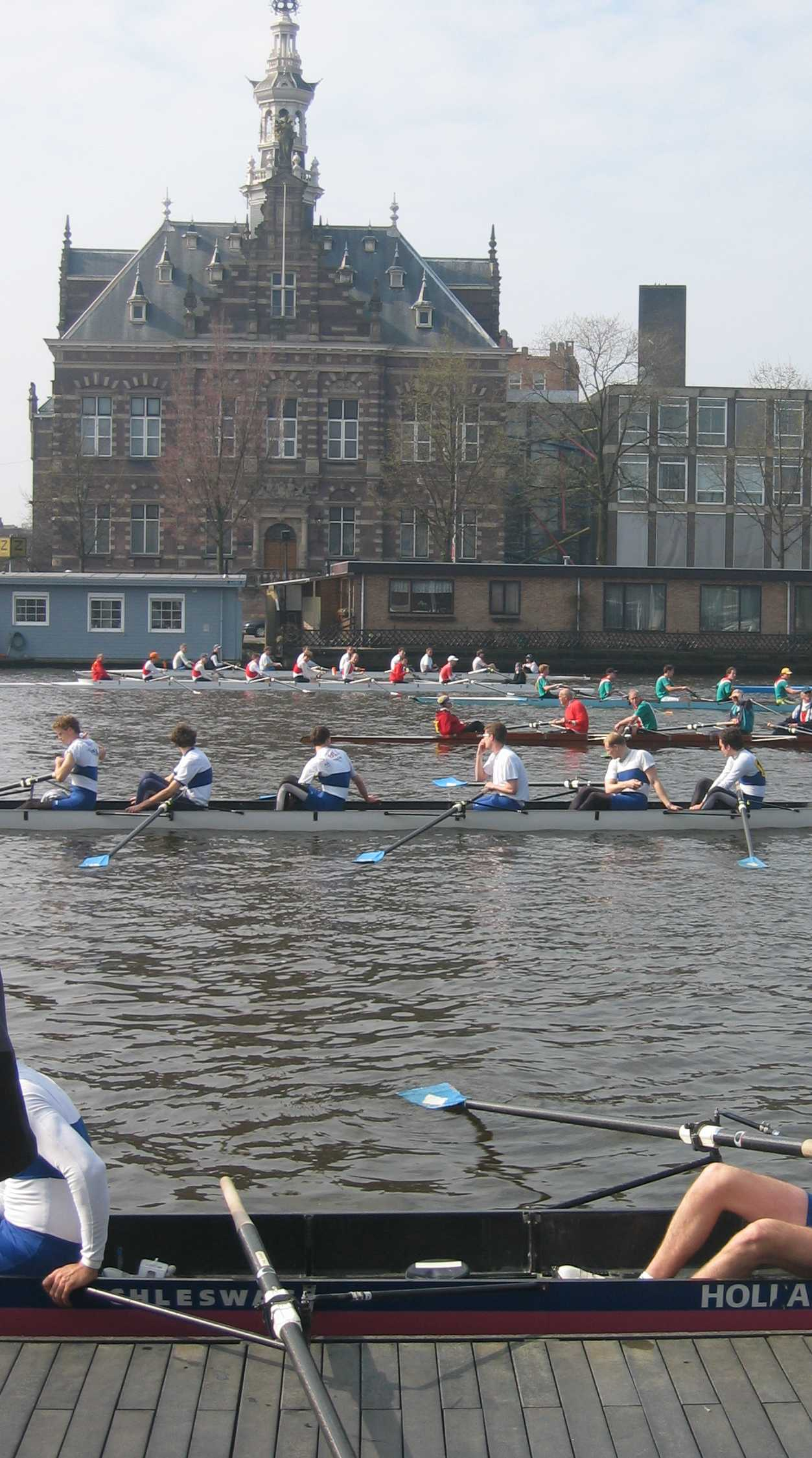 Head of the river Amstel 2005, start tweede blok